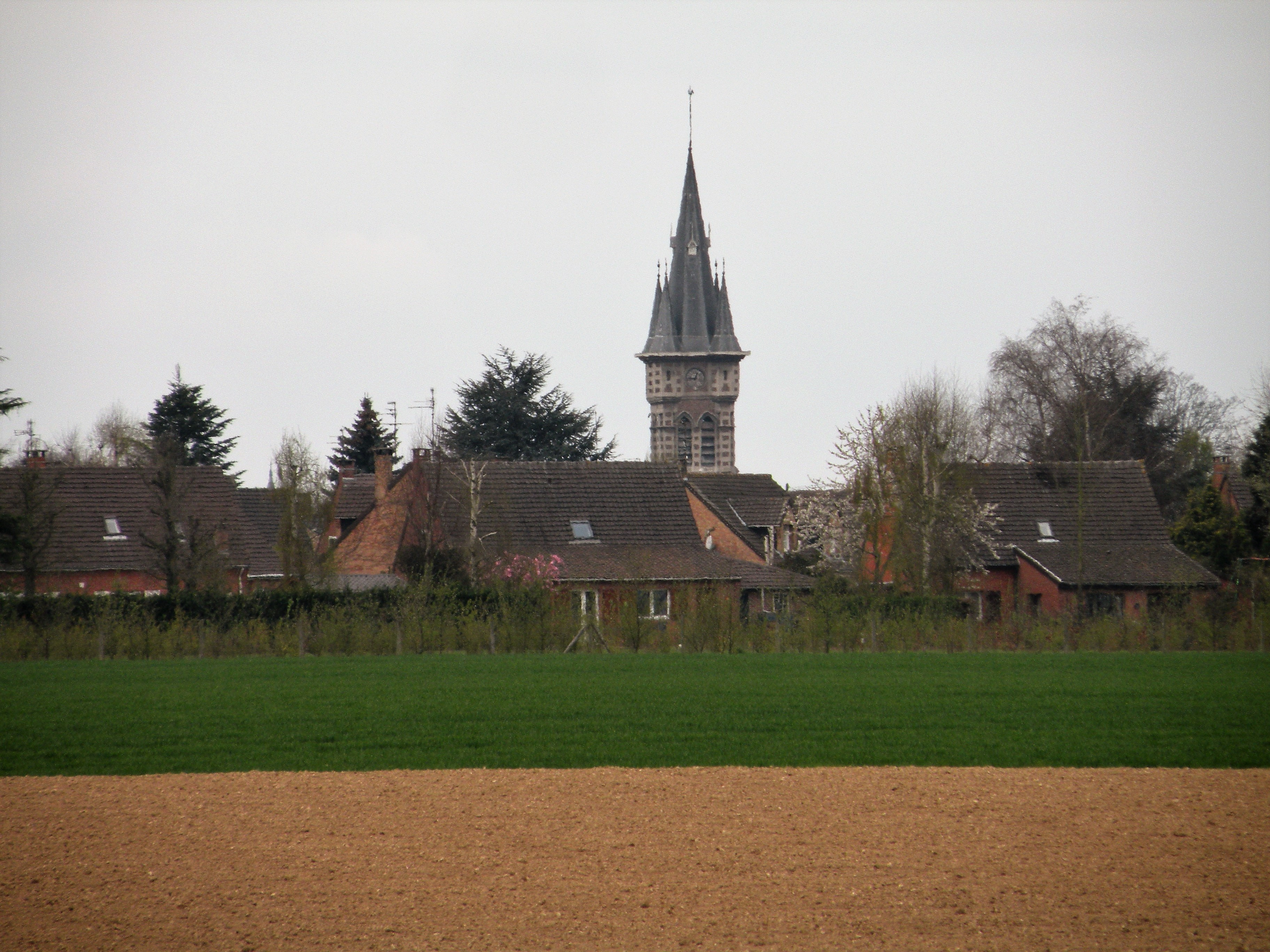 Village and church of Fournes-en-Weppes.